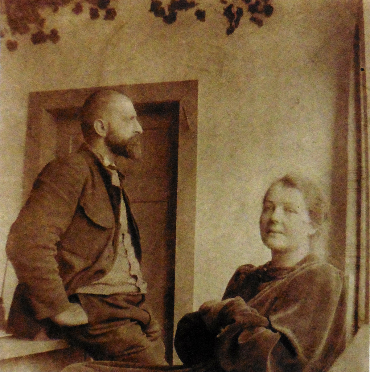 Otto Ubbelohde (1867-1922) and his wife Hanna in 1906 in front of their house in Goßfelden near Marburg.